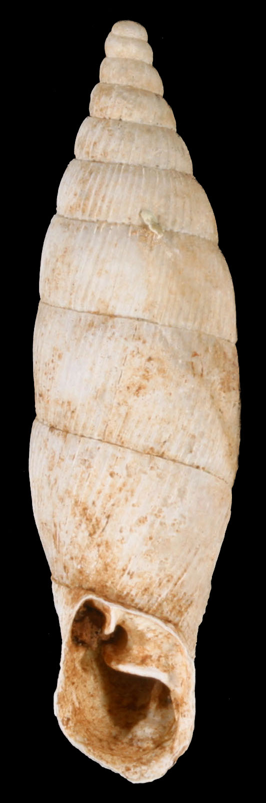 Photo of apertural view of the shell of one of paratypes of Albinaria latelamellaris. Locality: Turkey: Vilayet Antalya, 7.5 km E Yavı. Date: 25 August 1998.